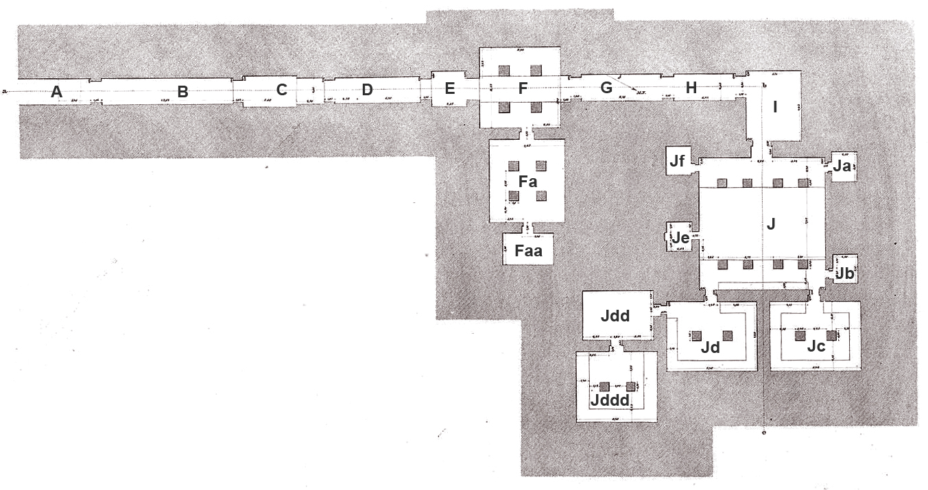 Tomb of Ramses II, from Denkmaeler aus Aegypten und Aethiopien nach den Zeichnungen der von Seiner Majestät dem Koenige von Preussen, Friedrich Wilhelm IV., nach diesen Ländern gesendeten, und in den Jahren 1842–1845 ausgeführten wissenschaftlichen Expedition auf Befehl Seiner Majestät. Nomenclature (rooms and corridors) from TMP.